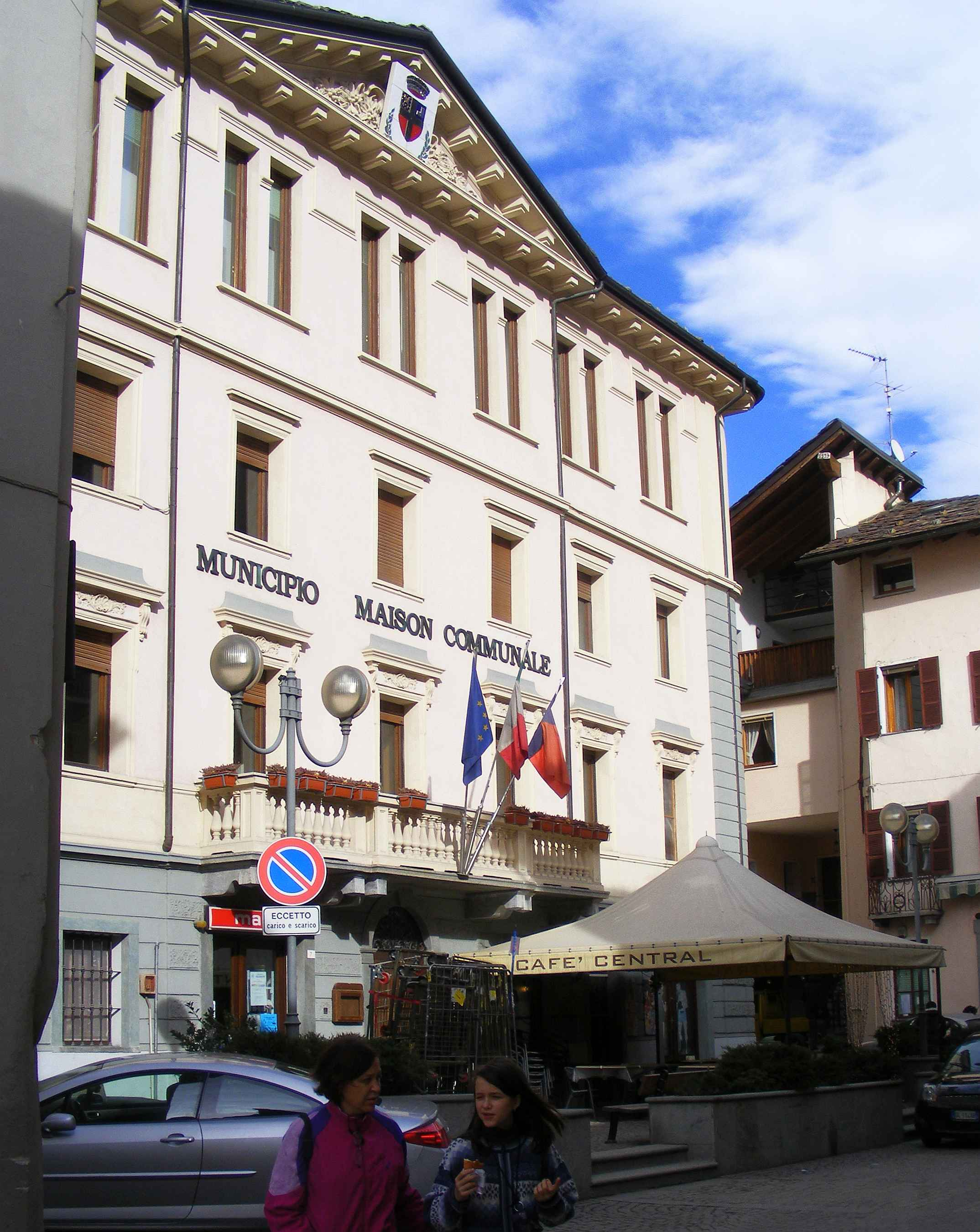 Villeneuve (AO, Italy): town hall